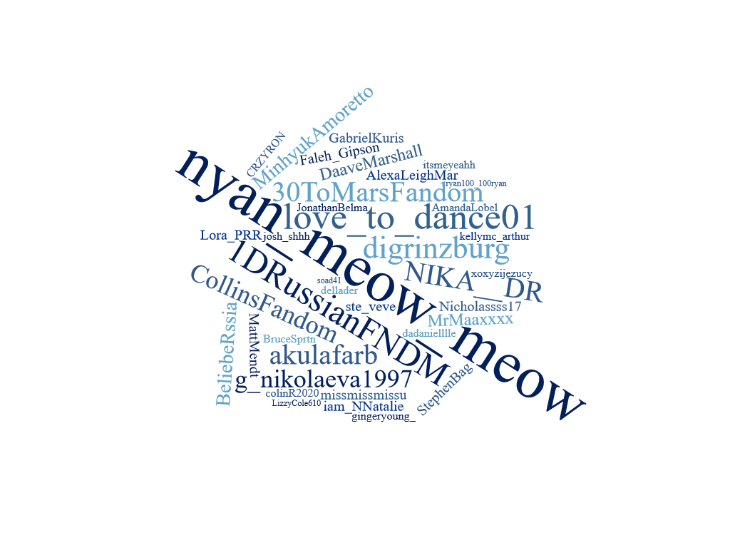 Word cloud of mostly active users in Twitter during the "trollings" of Sept./Dec. 2014 in Atlanta. They are believed to be trolls from Internet Research Agency